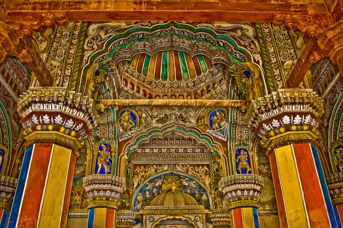 Thanjavur Maratha palace, Darbar Hall.